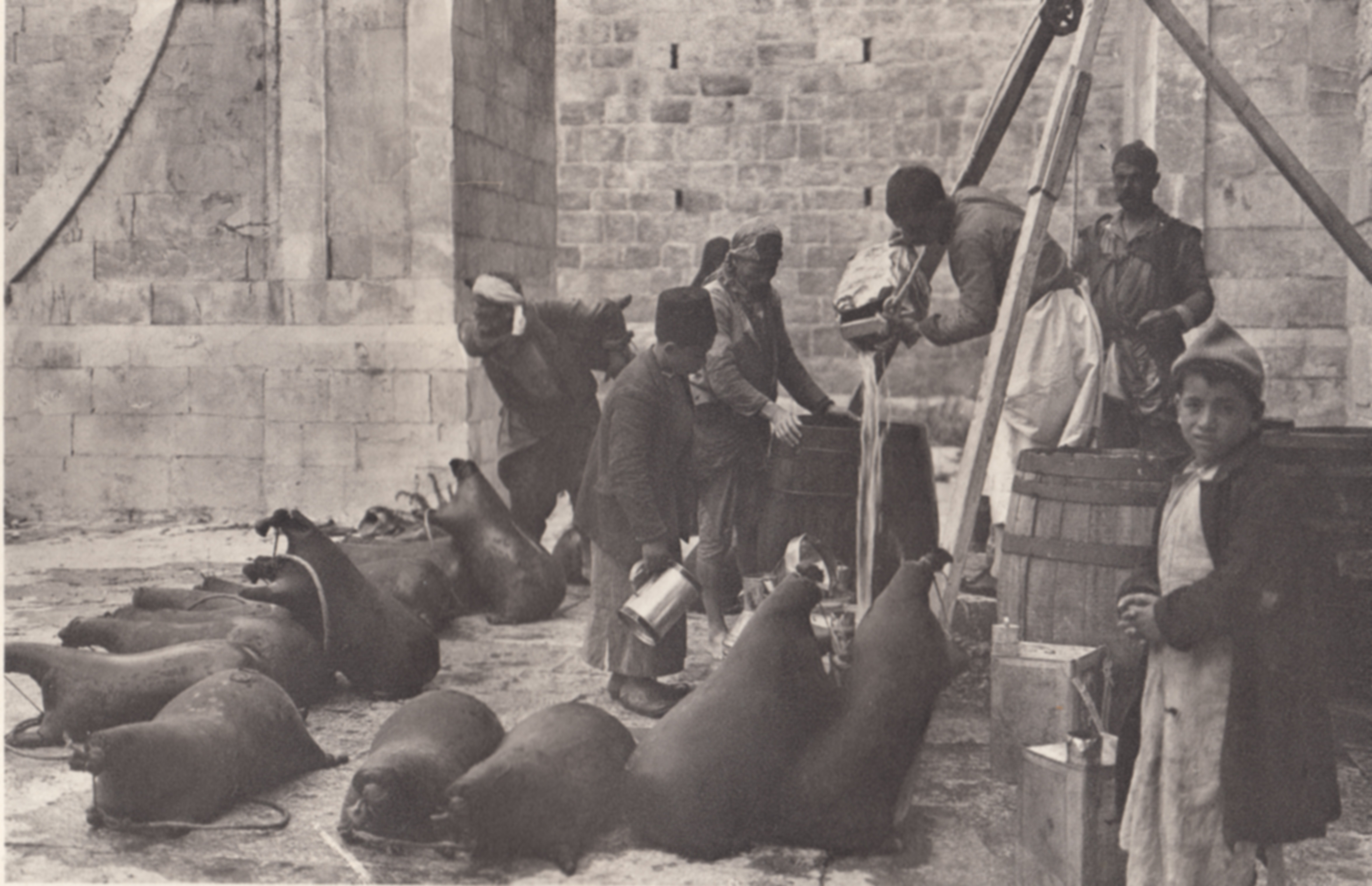 Distribution of water at the Golden Gate